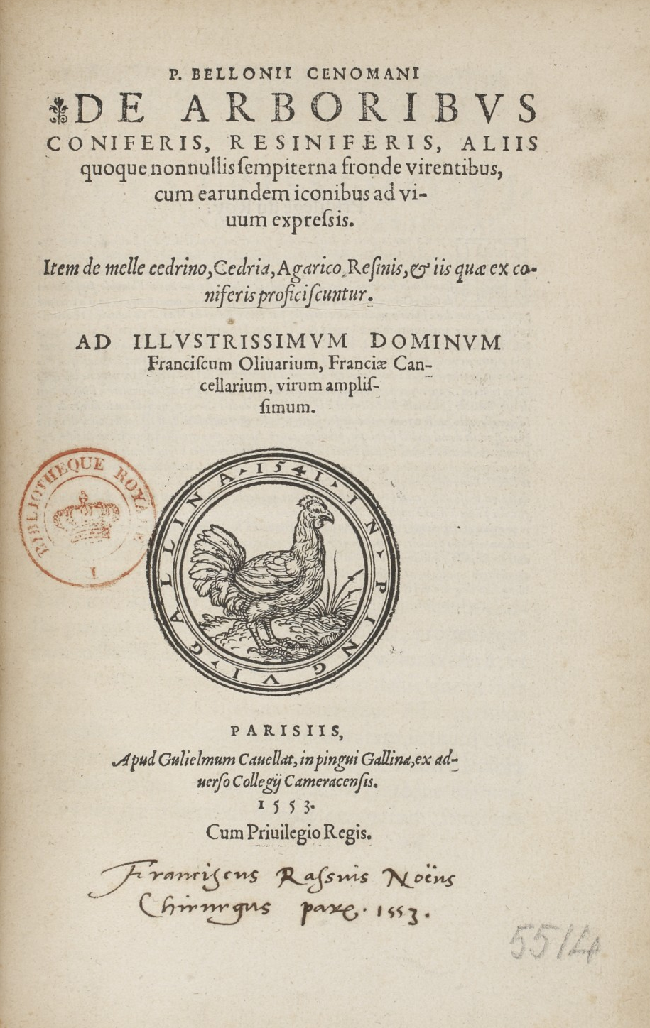 Pierre Belon, De arboribus coniferis, title page. BNF copy